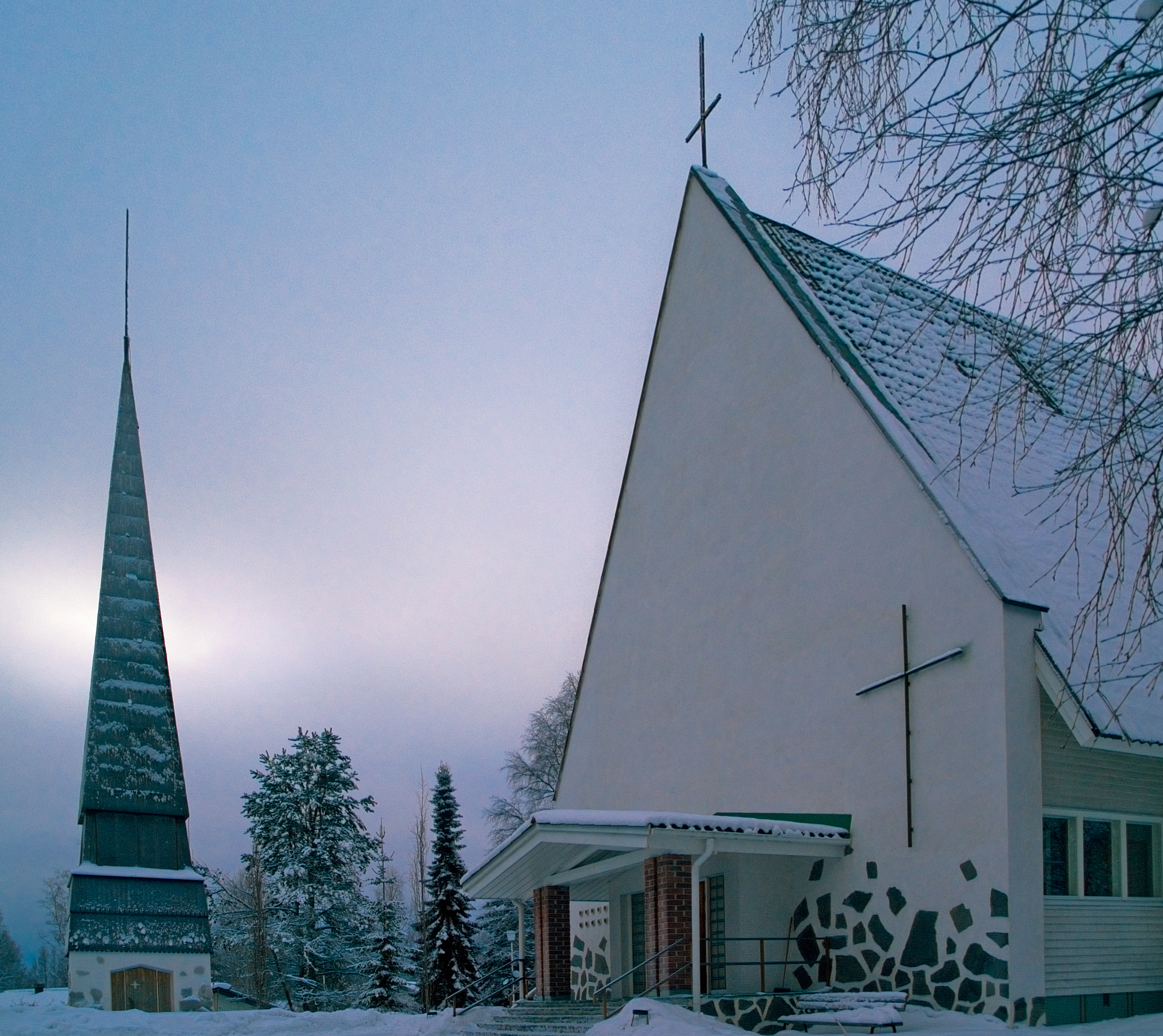 Lutheran church in Kyyjärvi, Finland, January 2013.